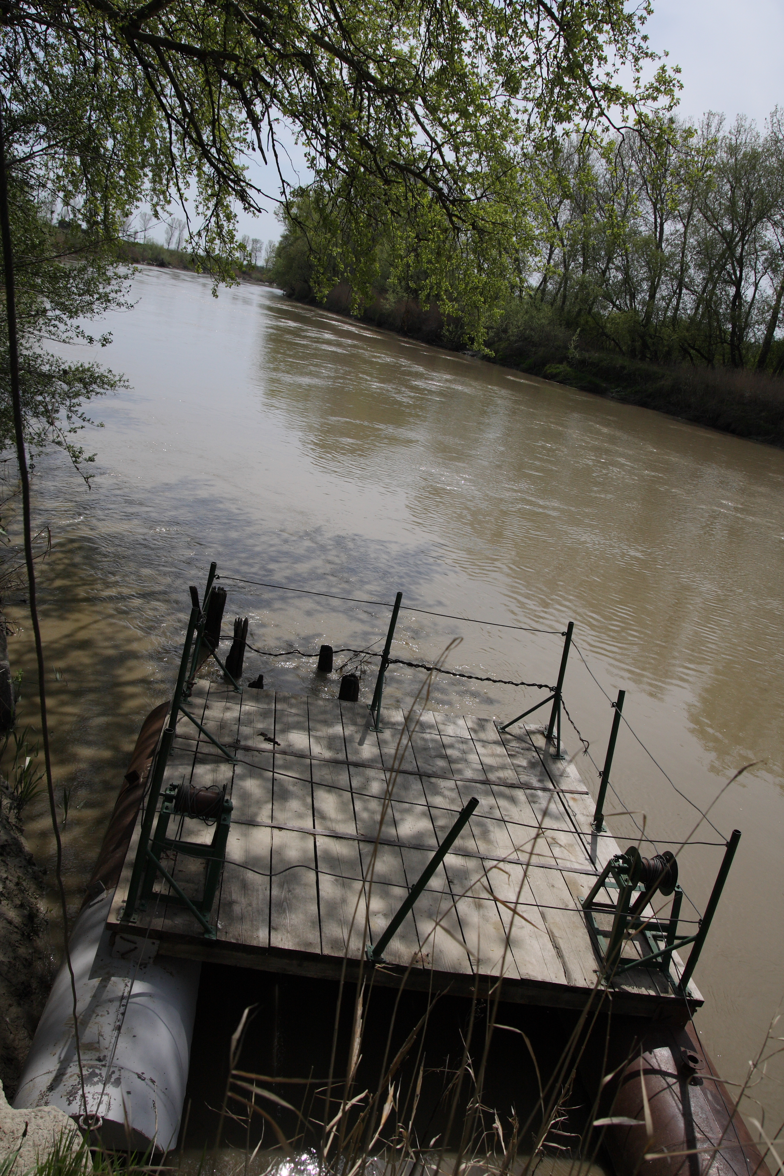 Prahova River Near Adancata